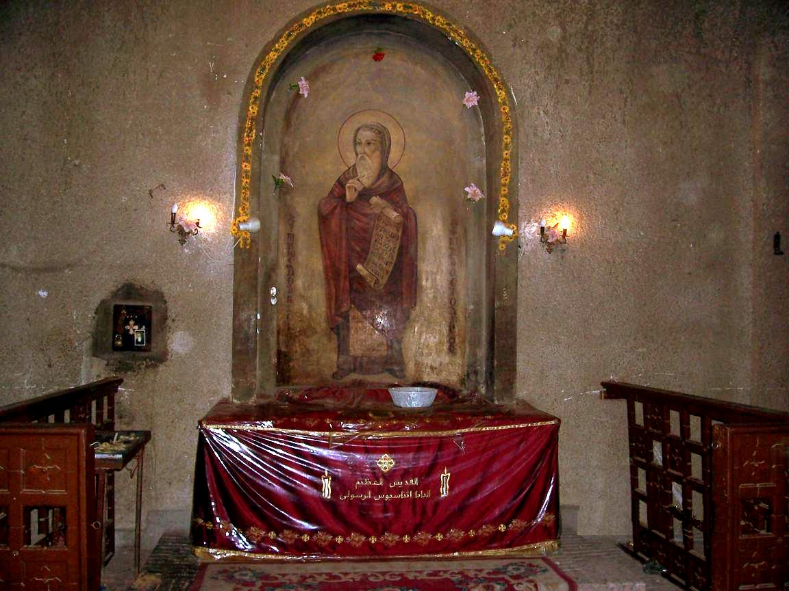 St Athanasius Shrine in St Mark Cathedral, Cairo, Egypt.